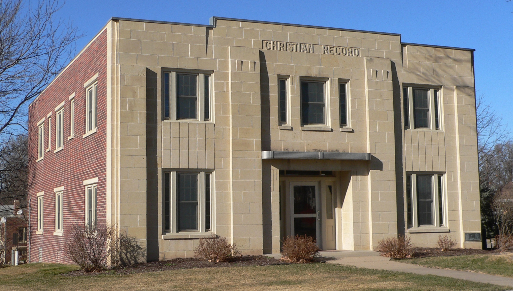 Christian Record building, located at 3705 S. 48th Street in Lincoln, Nebraska; seen from the southeast.